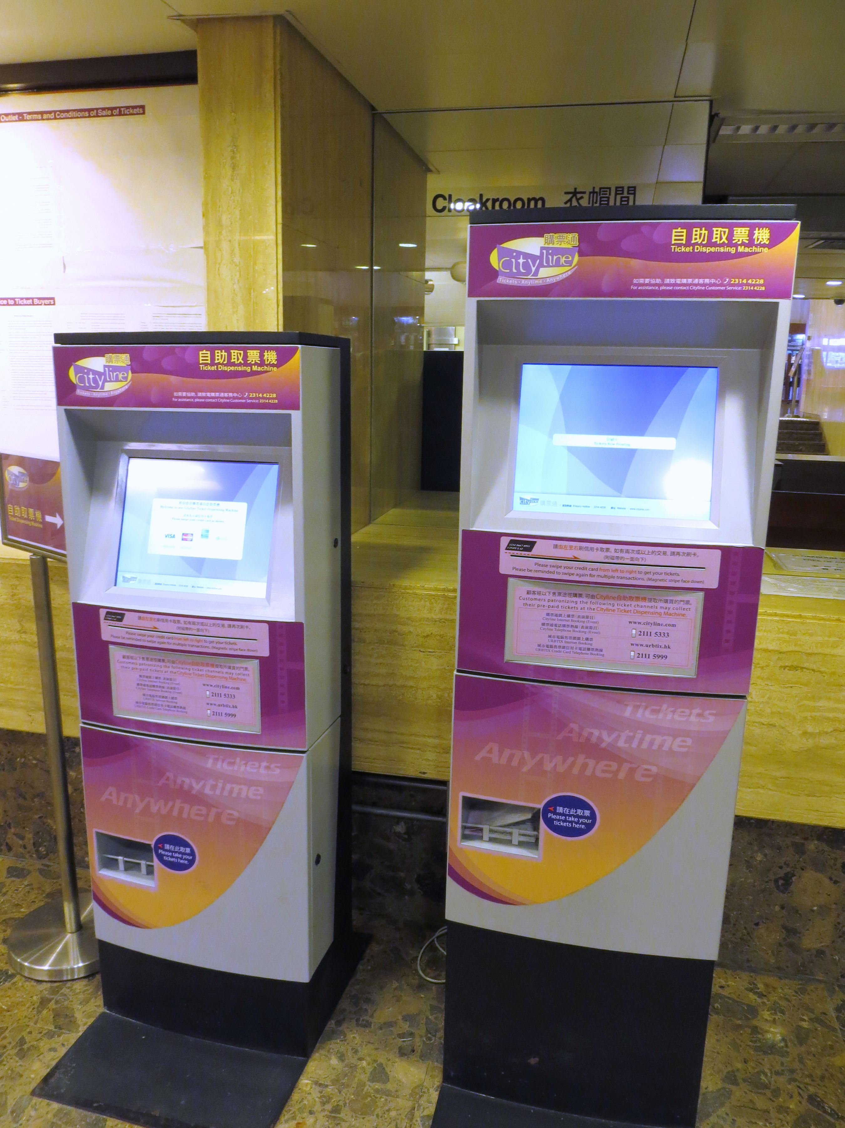 Two Cityline Ticket Dispensing Machines located at the Sha Tin Town Hall, Hong Kong.